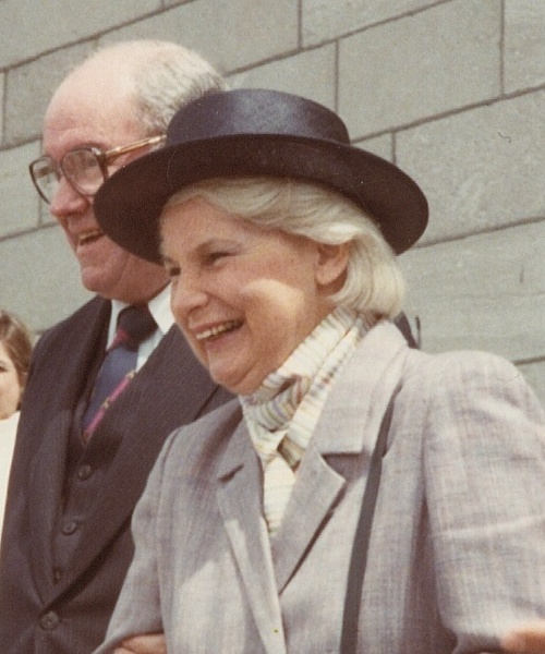 Jeanne Sauvé, Governor General of Canada, with her husband Maurice Sauvé, in Ottawa Canada